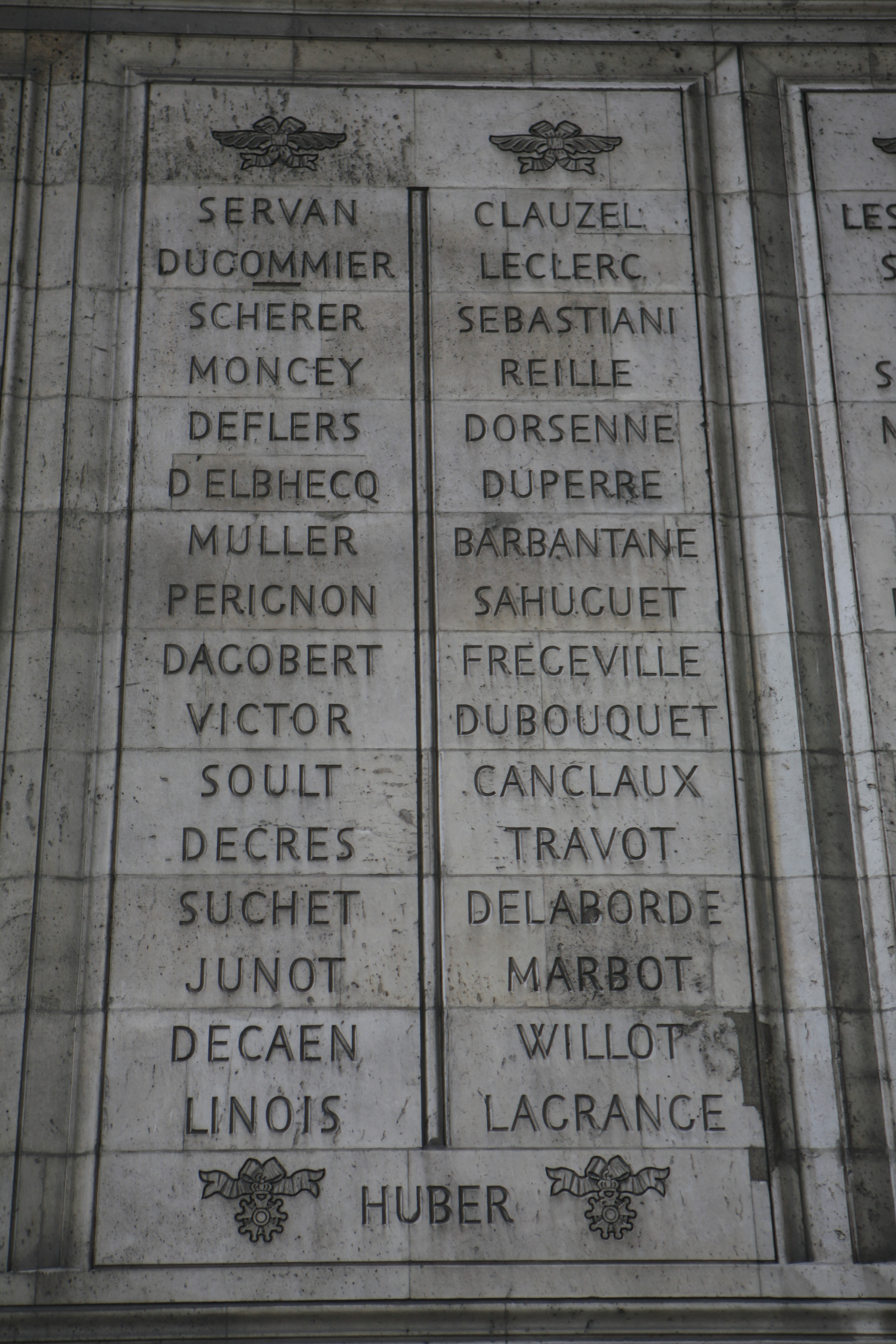 Inscriptions of the Arc de Triomphe. Western pillar, Columns 33, 34.